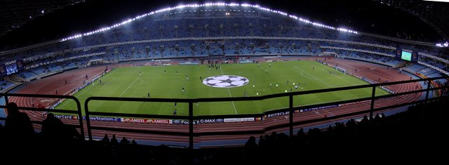 Anoeta Stadium, Real Sociedad's home. San Sebastian, Basque Country, Spain.